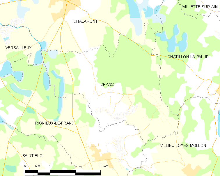 Map of French commune: Crans Map commune FR insee code 01129.png